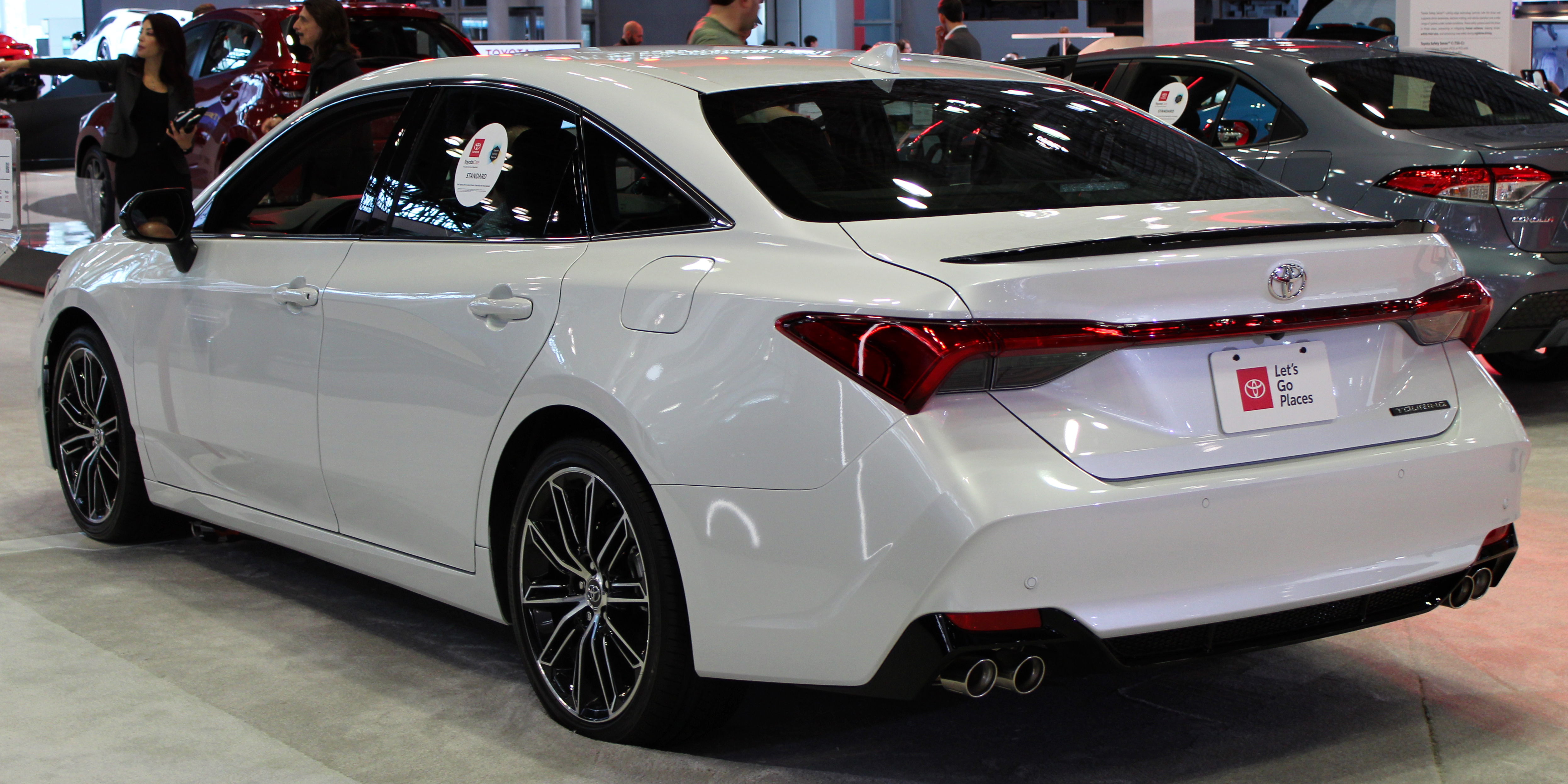 A 2019 Toyota Avalon Touring photographed during the 2019 New York International Auto Show, in Hudson Yards, Manhattan, NYC